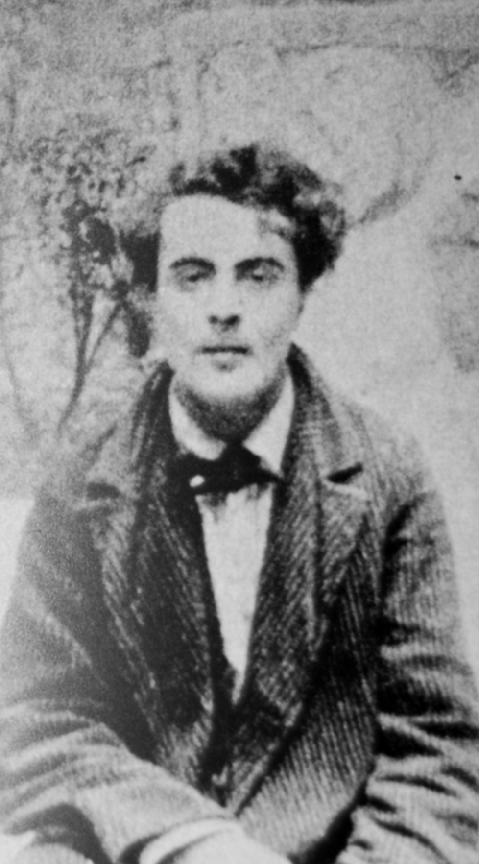 Amedeo Modigliani at the garden of La Ruche in Paris